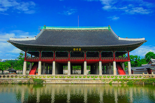 The Gyeongbok Palace in Seoul. This is Gyeonghoeru, a two storied pavilion used as a banqueting hall.